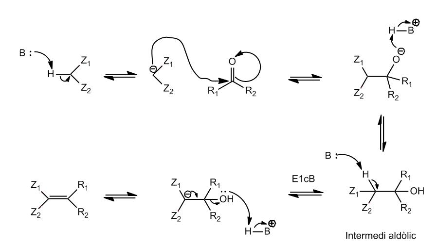 The mechanism of the Knoevenagel condensation